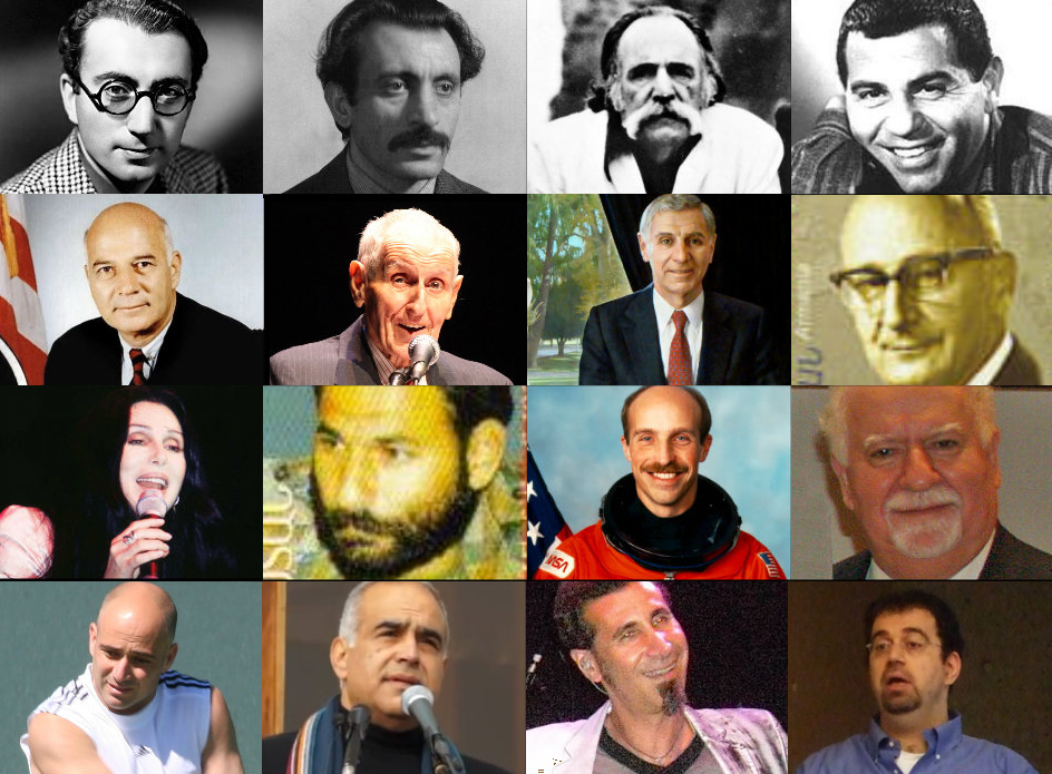 Notable Armenian Americans